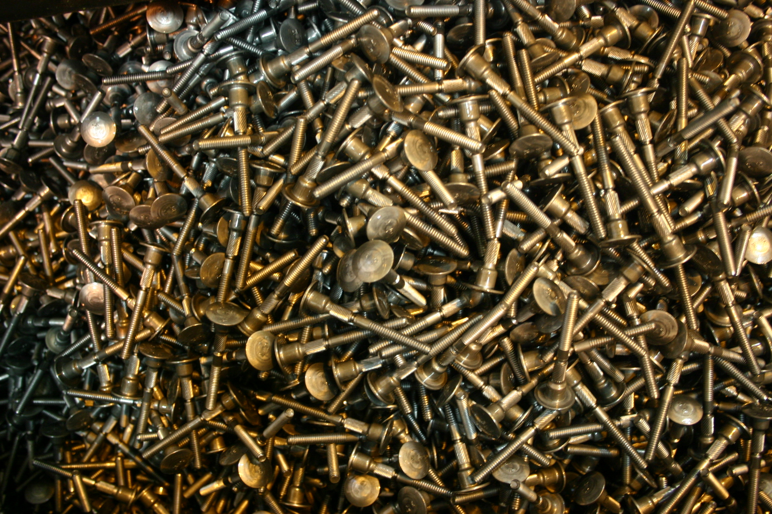 Picture of Huck fasteners as they come off a manufacturing cell